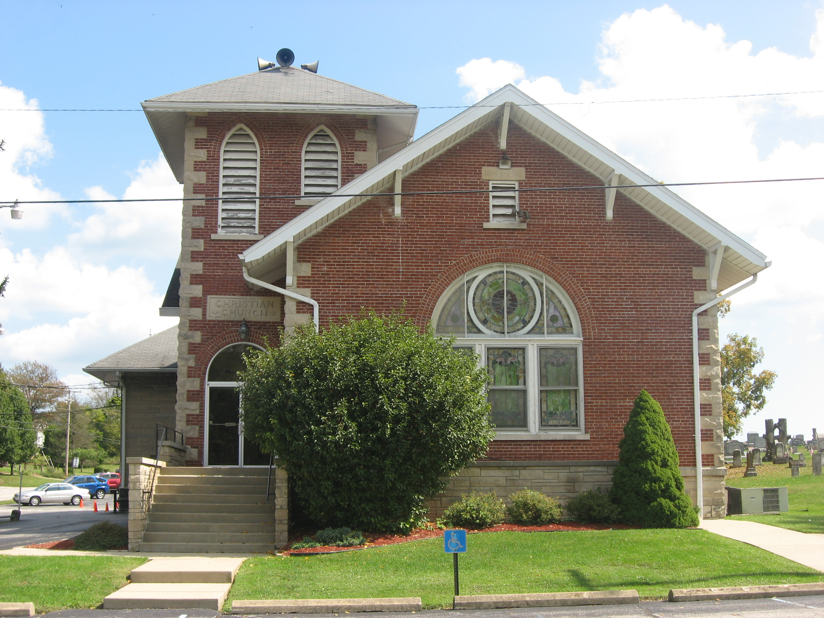 Front of the Clear Creek Christian Church, located at 5405 S. Rogers Street in Clear Creek, south of Bloomington in Perry Township, Monroe County, Indiana, United States. It was built in 1917.